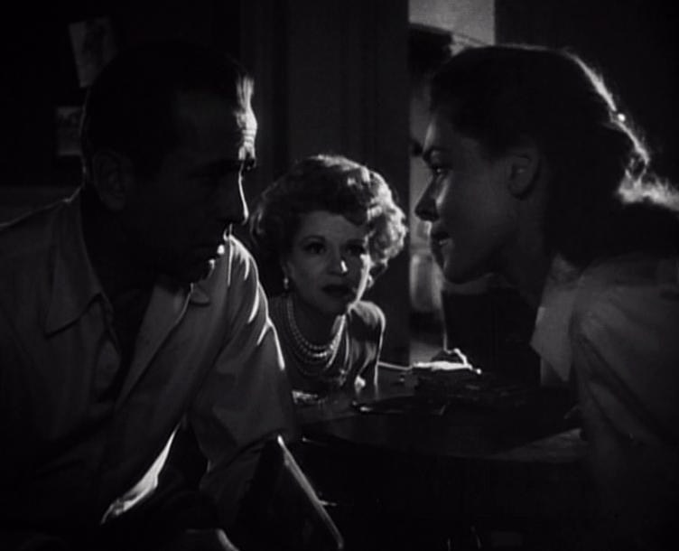 L. to R. : Humphrey Bogart, Claire Trevor & Lauren Bacall in Key Largo - trailer (cropped screenshot)